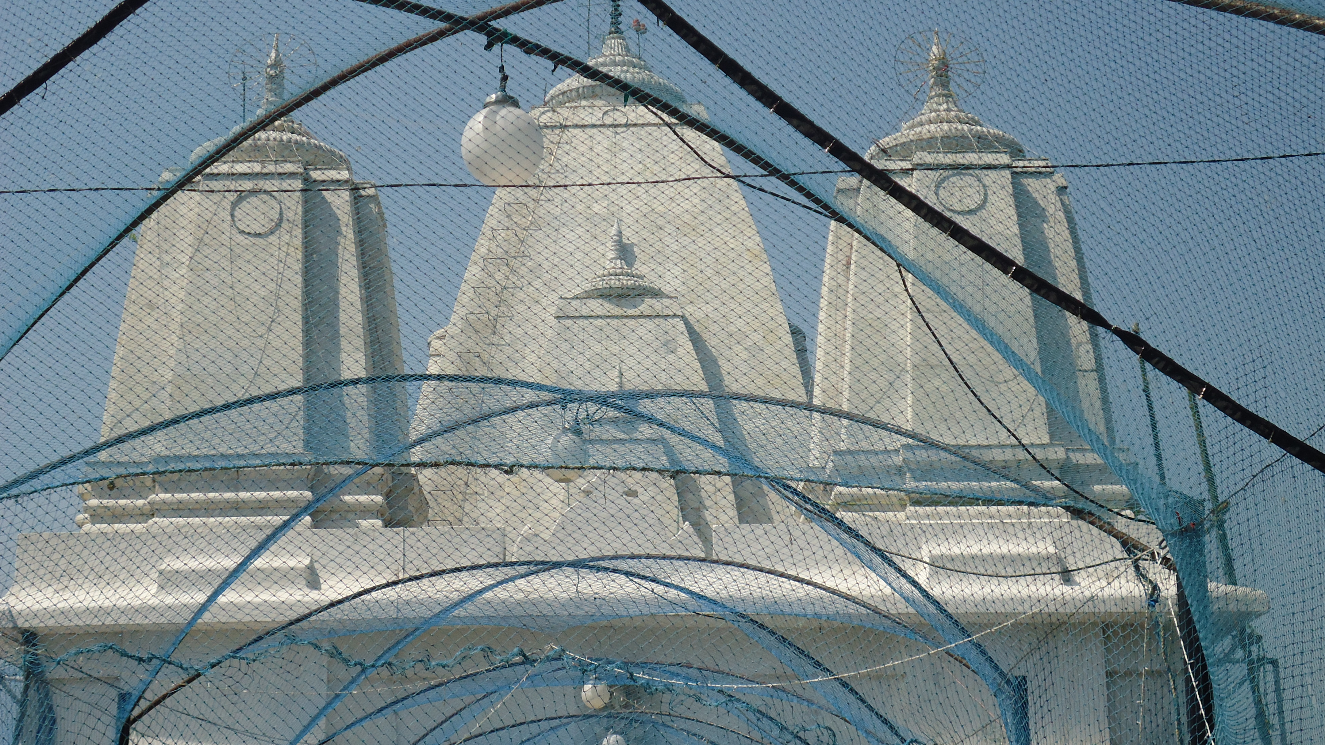 சீதாமார்கி எனப்படும் சீதாமடி